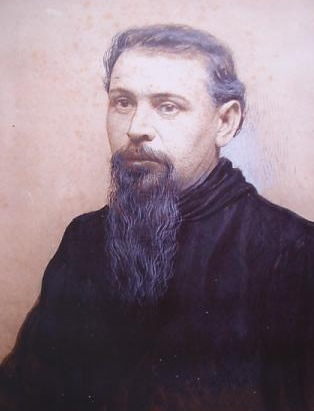 Argentine gaucho Juan Moreira (1829-1874).